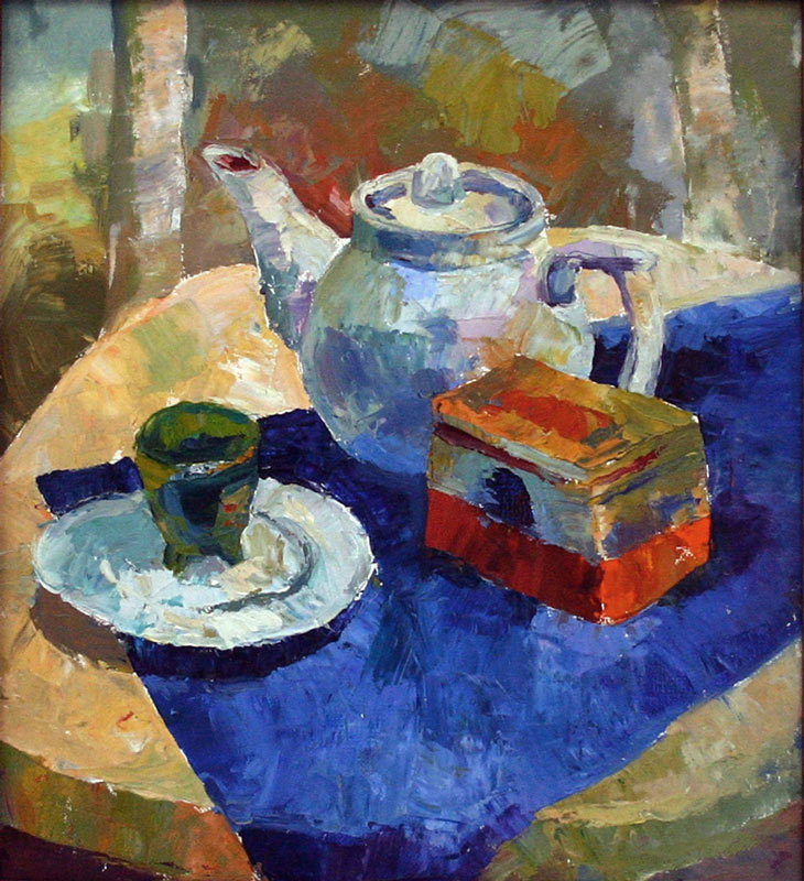 А. Довгань, "Грузинский чай"